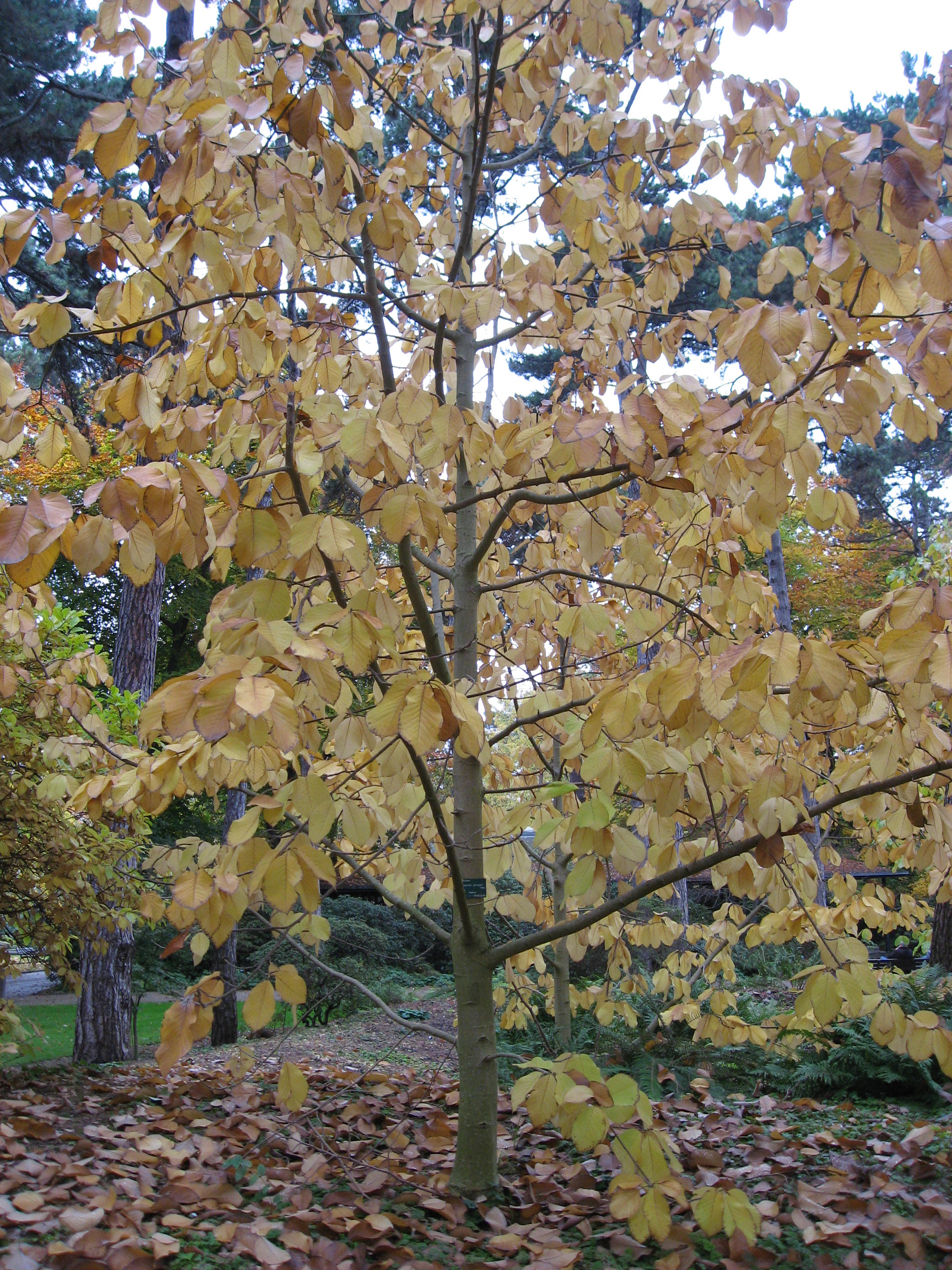 Magnolia sprengeri with autumn colors in Parc floral de Paris Map: 48° 50' 19" N 2° 26' 33" E